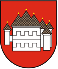 Bojnice (SK) Coat of Arms